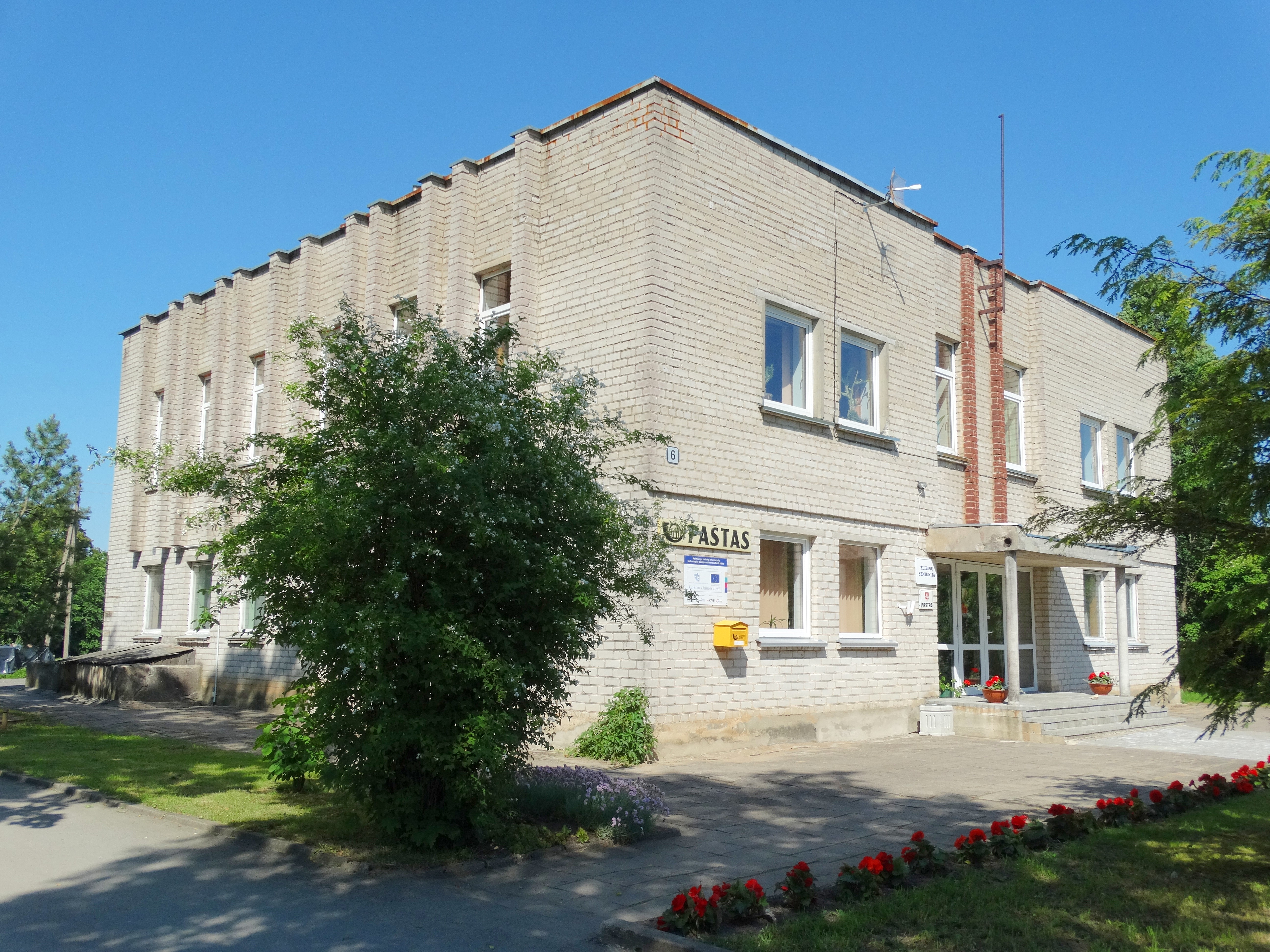 Eldership, Žlibinai, Plungė District, Lithuania